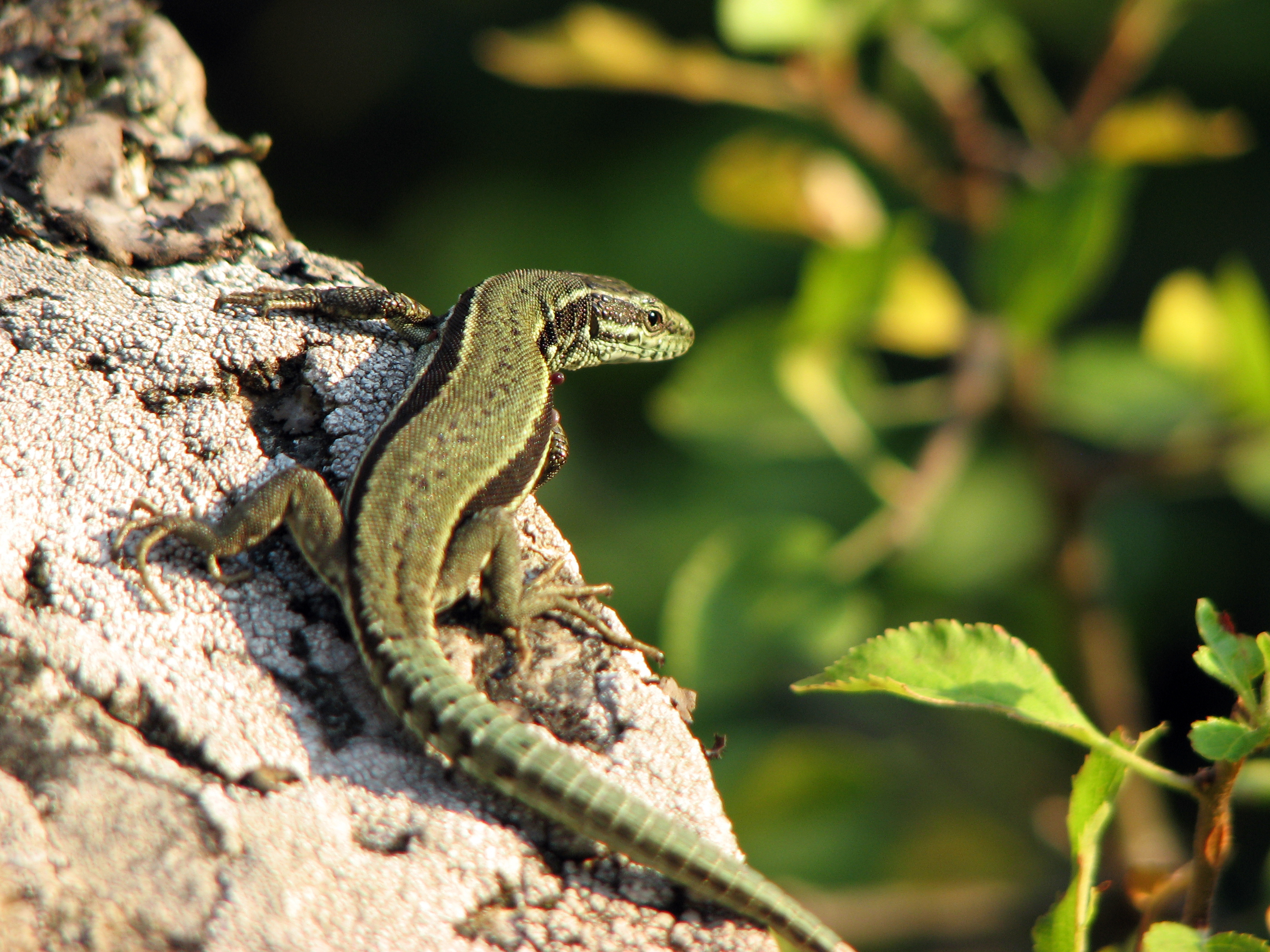 Green lizard taking a sun bath